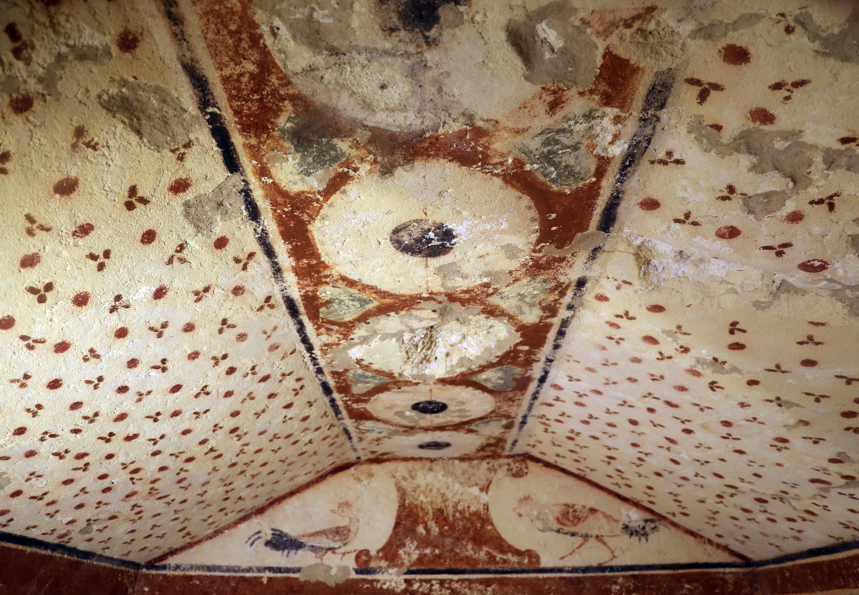 Necropoli dei Monterozzi (Tarquinia)